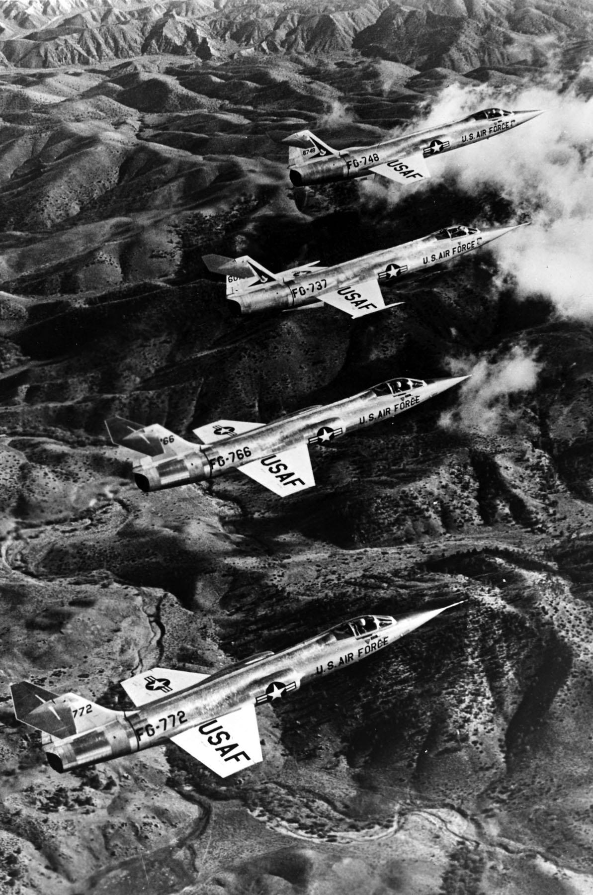 Four U.S. Air Force Lockheed F-104A Starfighters (-5-LO S/N 56-0737, -10-LO S/N 56-0748, -15-LO S/N 56-0766 and 56-0772) in flight.